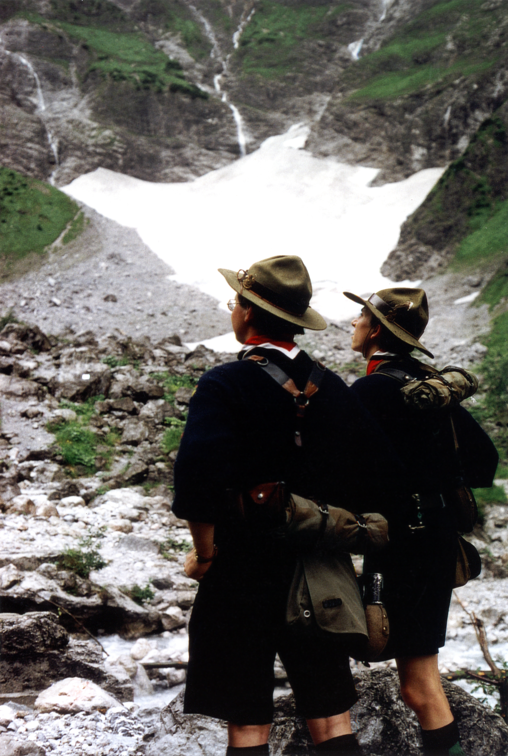 German Boy Scouts with M1931 Splittermuster shelter-halves in 1993 near the Königssee, Bavaria.